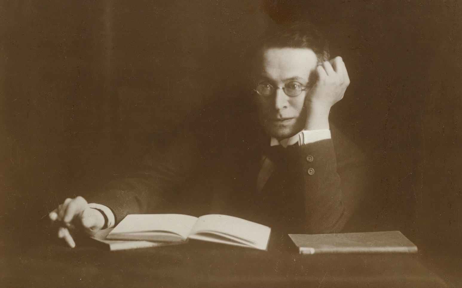 Karl Kraus (1874–1936), Austrian writer and journalist.